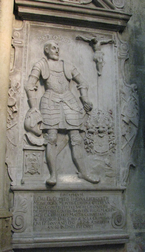 Gravestone of the Ban (viceroy) Toma Bakač Erdödy (1558-1624) in the Zagreb Cathedral, Croatia